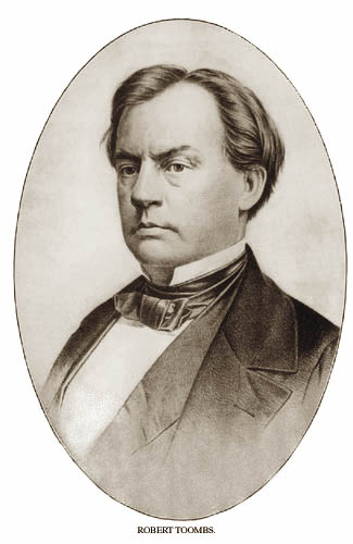 Robert Augustus Toombs portrait